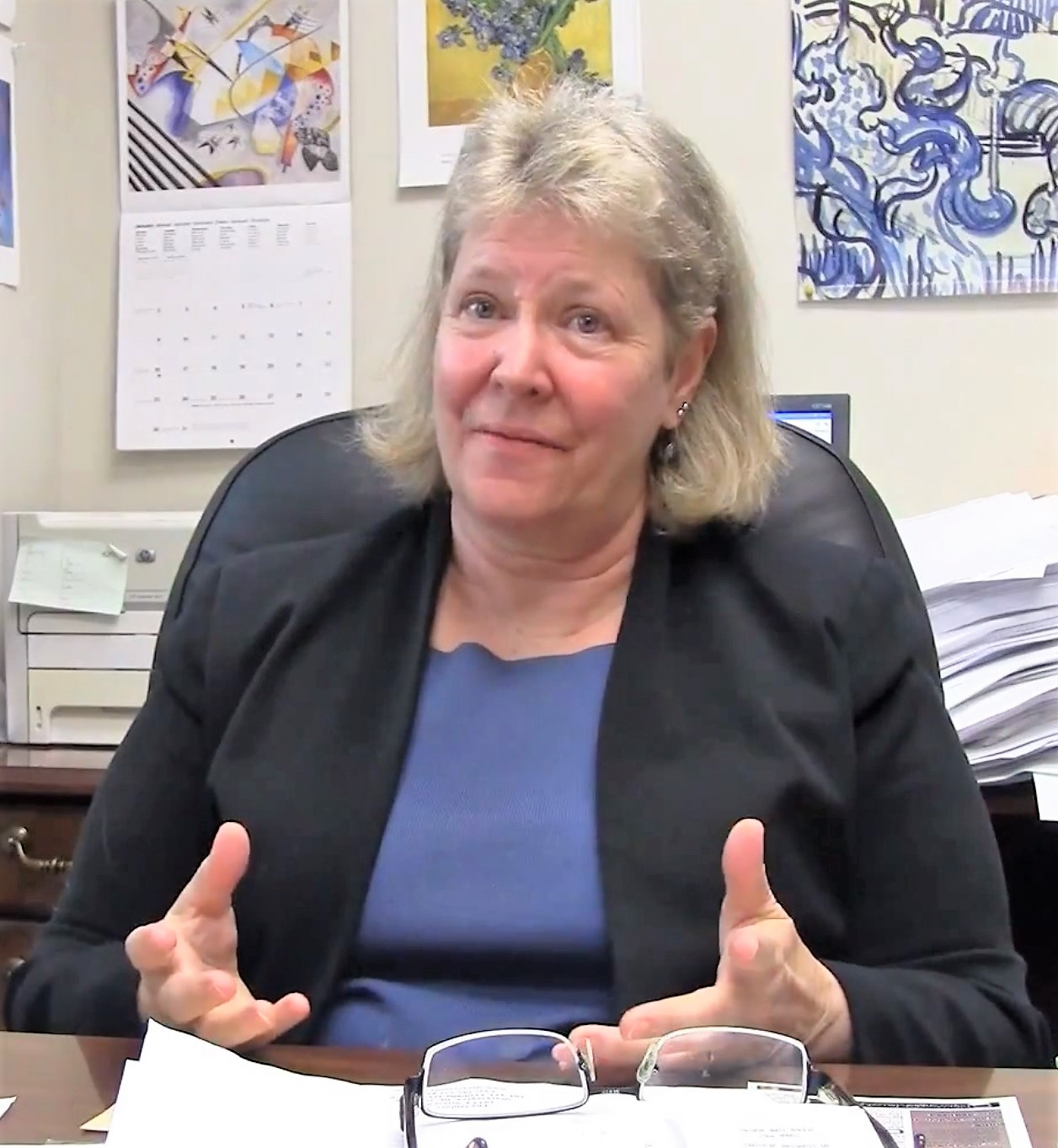 "Kathleen Blake Yancey on archive robustness" by Michael Neal et al. (Kairos 17.3 Topoi) Kathleen Blake Yancey discusses the relationship between the robustness and the scope of the archive by observing that broader scope does not always ensure a more robust archive. This text is published in the May 2013 (17.3) issue of the Topoi section of Kairos: A Journal of Rhetoric, Technology, and Pedagogy. Kairos is a free, online, peer-reviewed scholarly journal available at